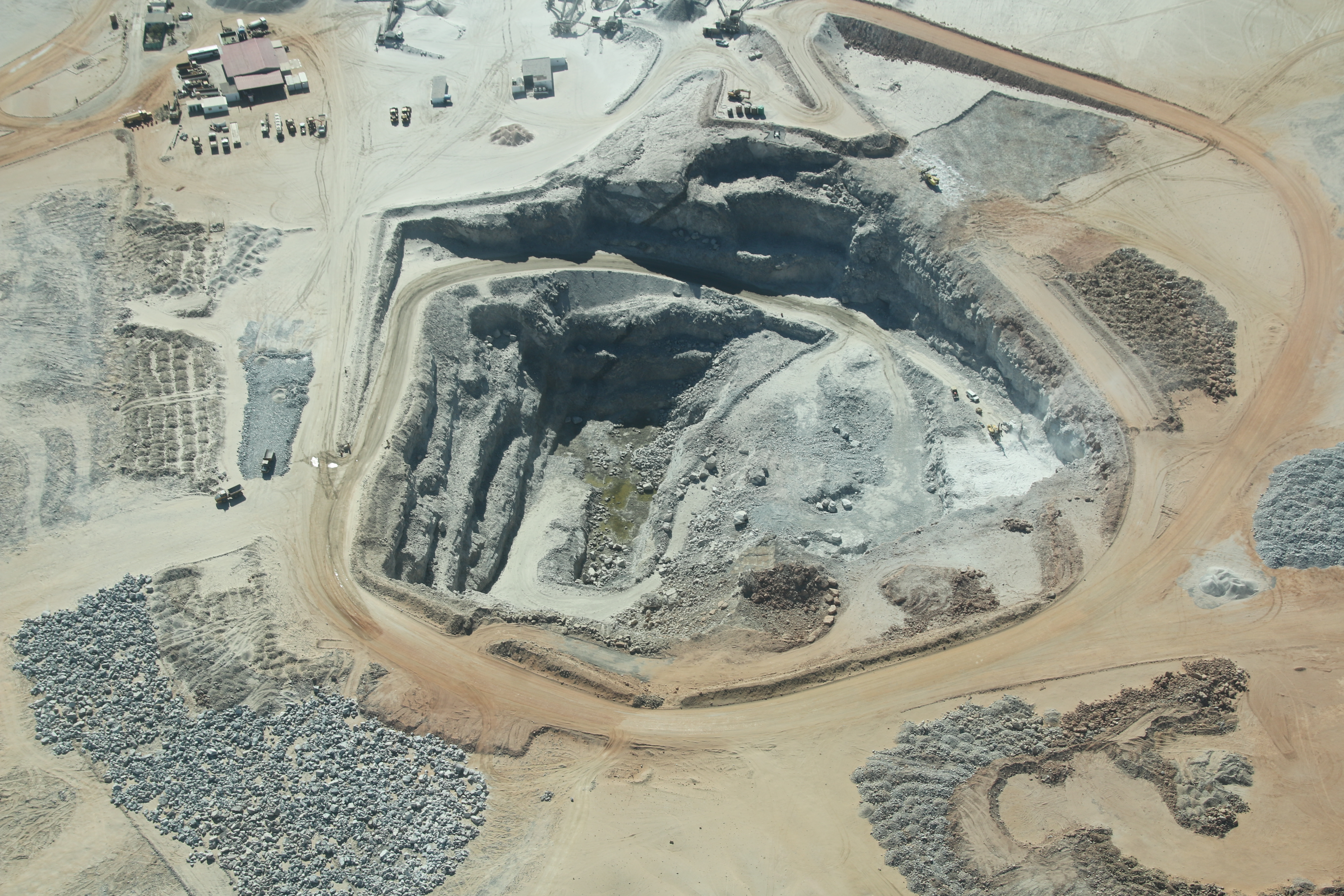 Walvis Bay Mine (2018)